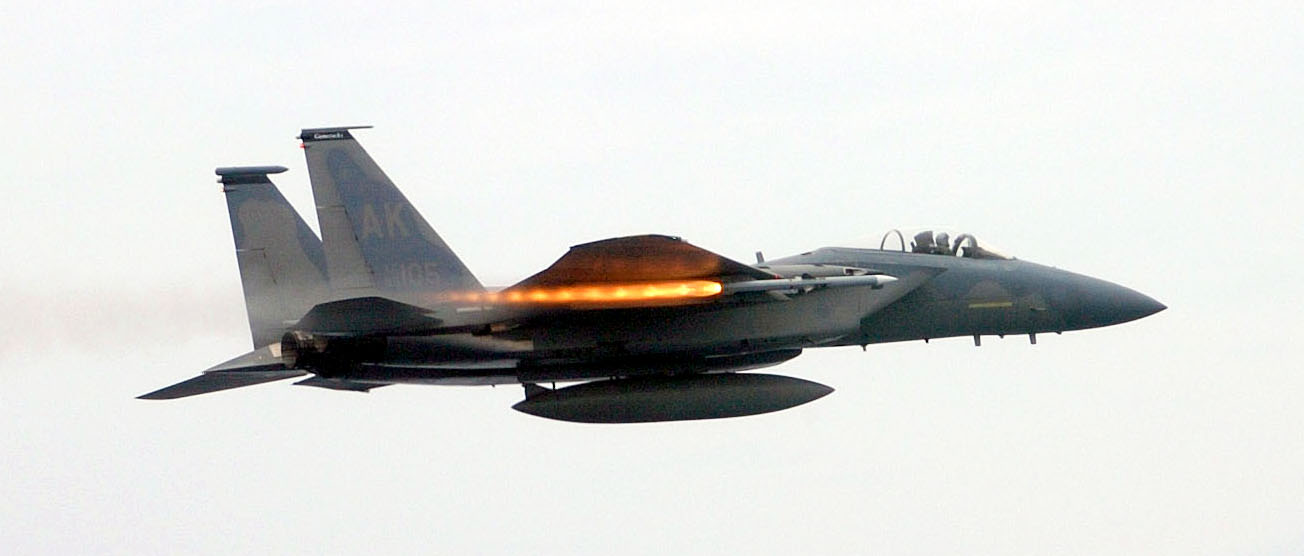 F-15C launches an AIM-120C missile